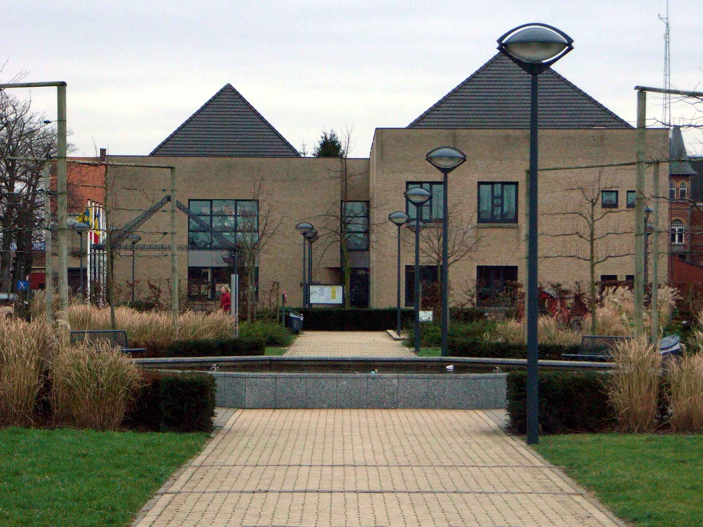 Administration Center of Gistel, Belgium